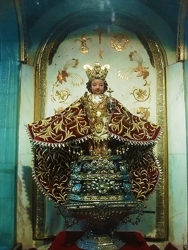 The Original Señor Santo Niño de Cebu's 2009 Fiesta Regalia